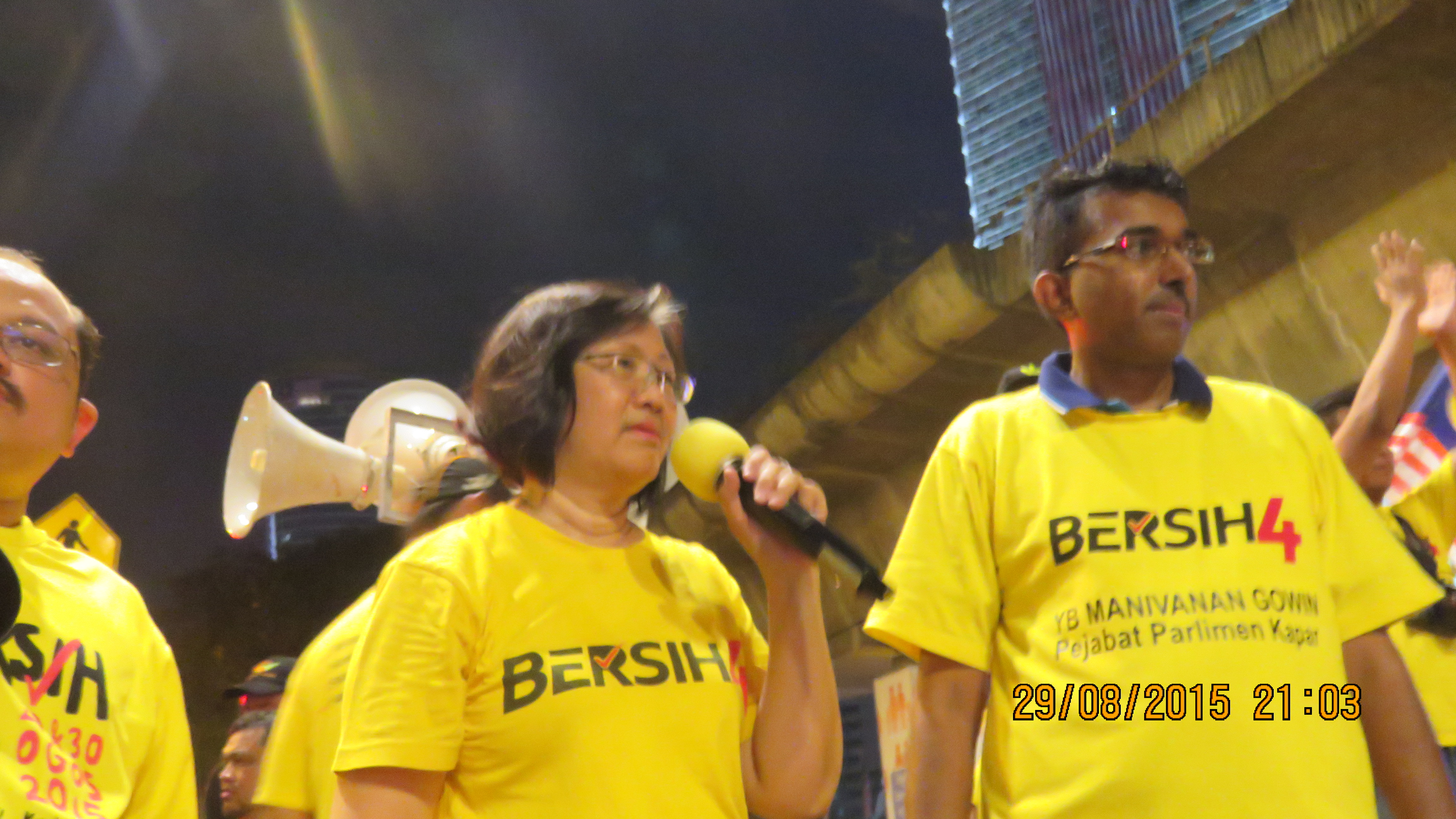 Maria Chin Abdulla, President of Bersih speaks